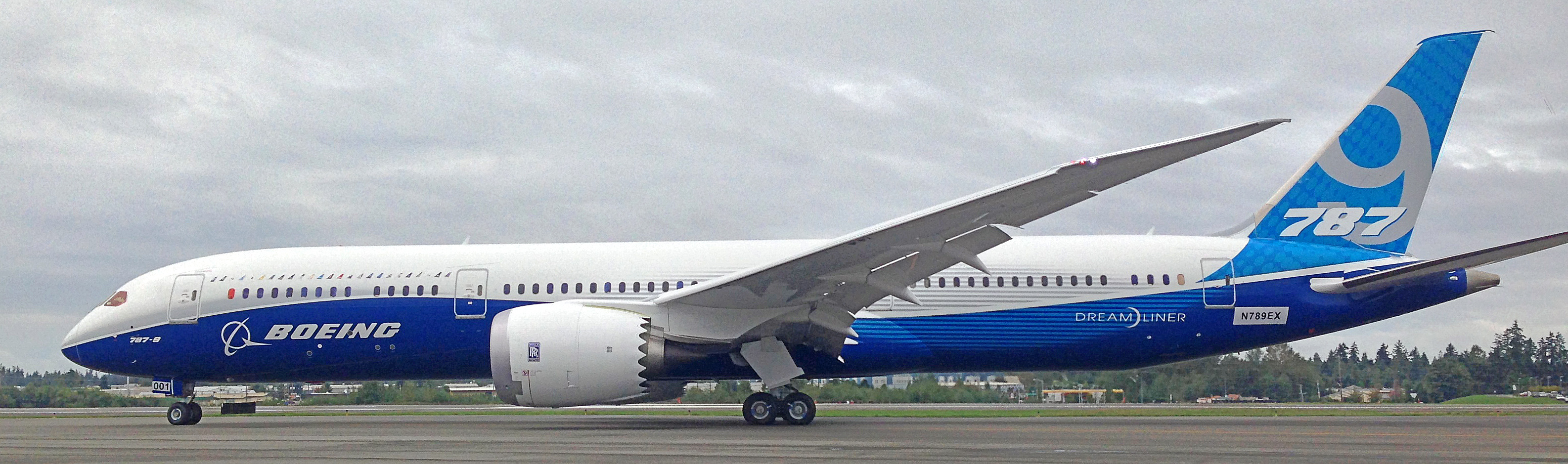 First Flight of the Boeing 787-9